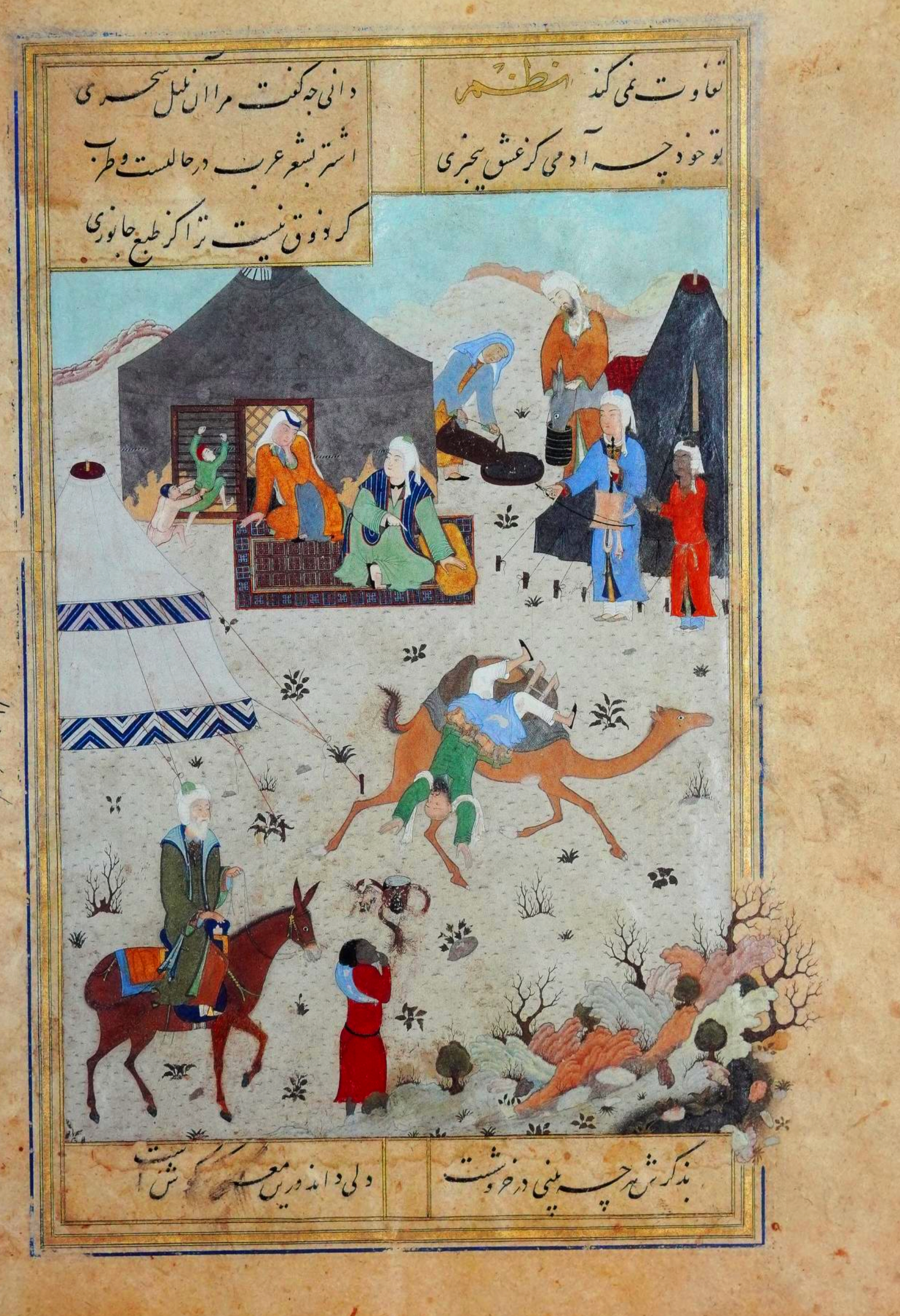 "The Traveler and the Dervish" possibly by Hajji Muhammad, Herat 1486. This piece is from a manuscript of the Golestan of Sa'di produced at the court of Soltan Hosayn Mirza Bayqara who was the ruler of Astrabad and Herat. It is probable that the tribes we know as Turkmen were vassal to Soltan Hosayn Mirza Bayqara. We can be relatively certain that at least the Yomut and the Gocklin were and since Soltan Hosayn Mirza Bayqara was more powerful than the Khan of Khiva it is likely that he was lord over all the Turkmen for at least part of his reign.